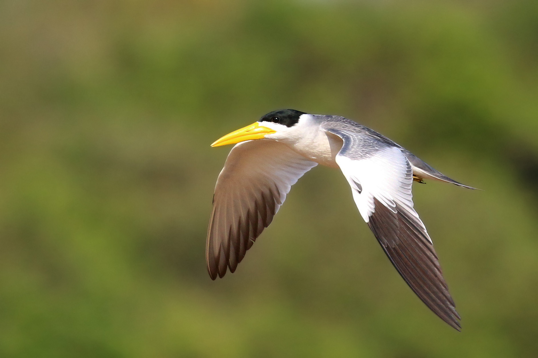 Large-billed tern (Phaetusa simplex), in flight in the Pantanal, Brazil